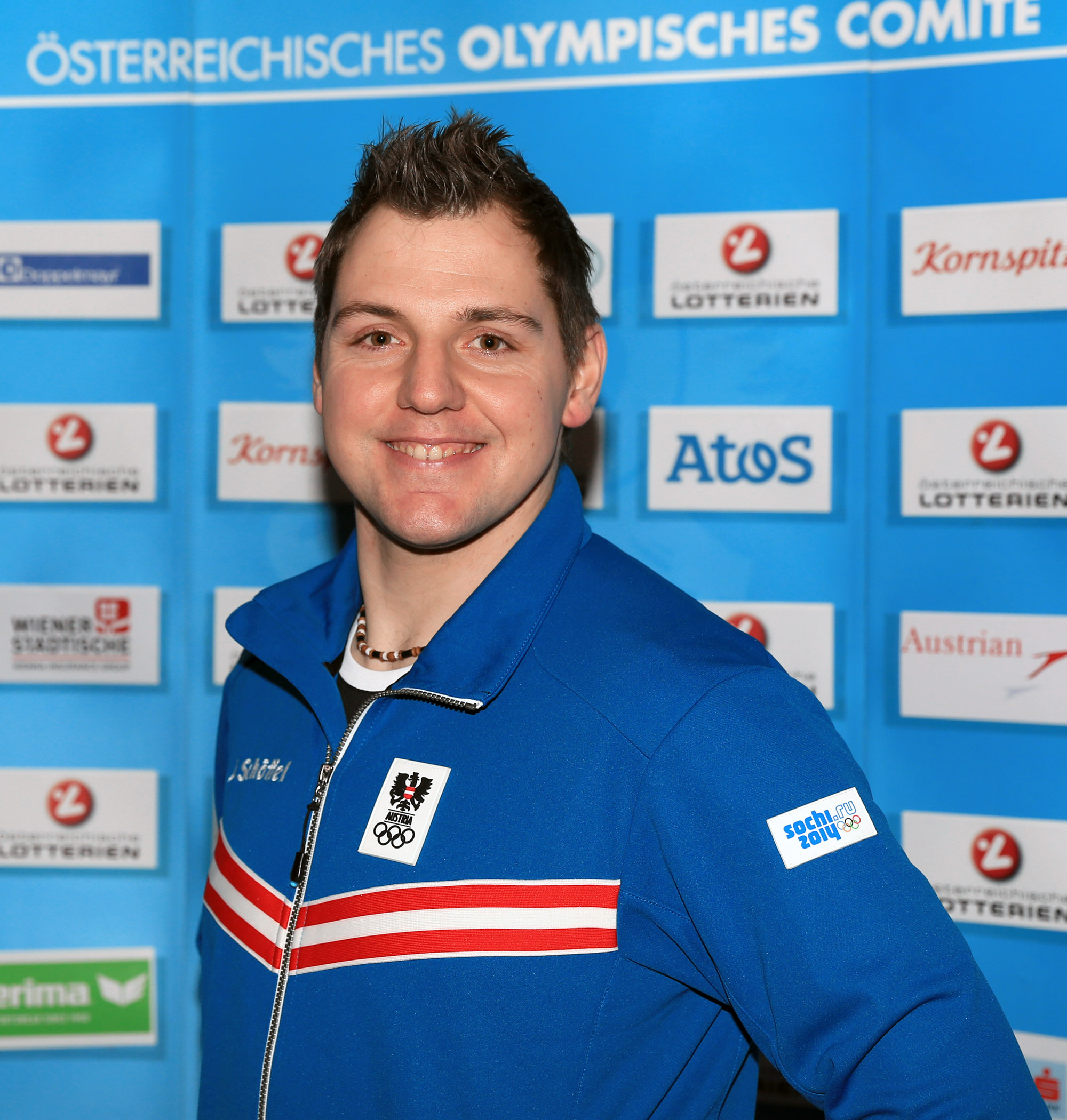 Daniel Pfister (luge) at the outfitting of the Austrian team for the 2014 Winter Olympics (Hotel Marriott in Vienna, Austria.